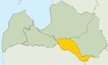 Latvia map - Sēlija